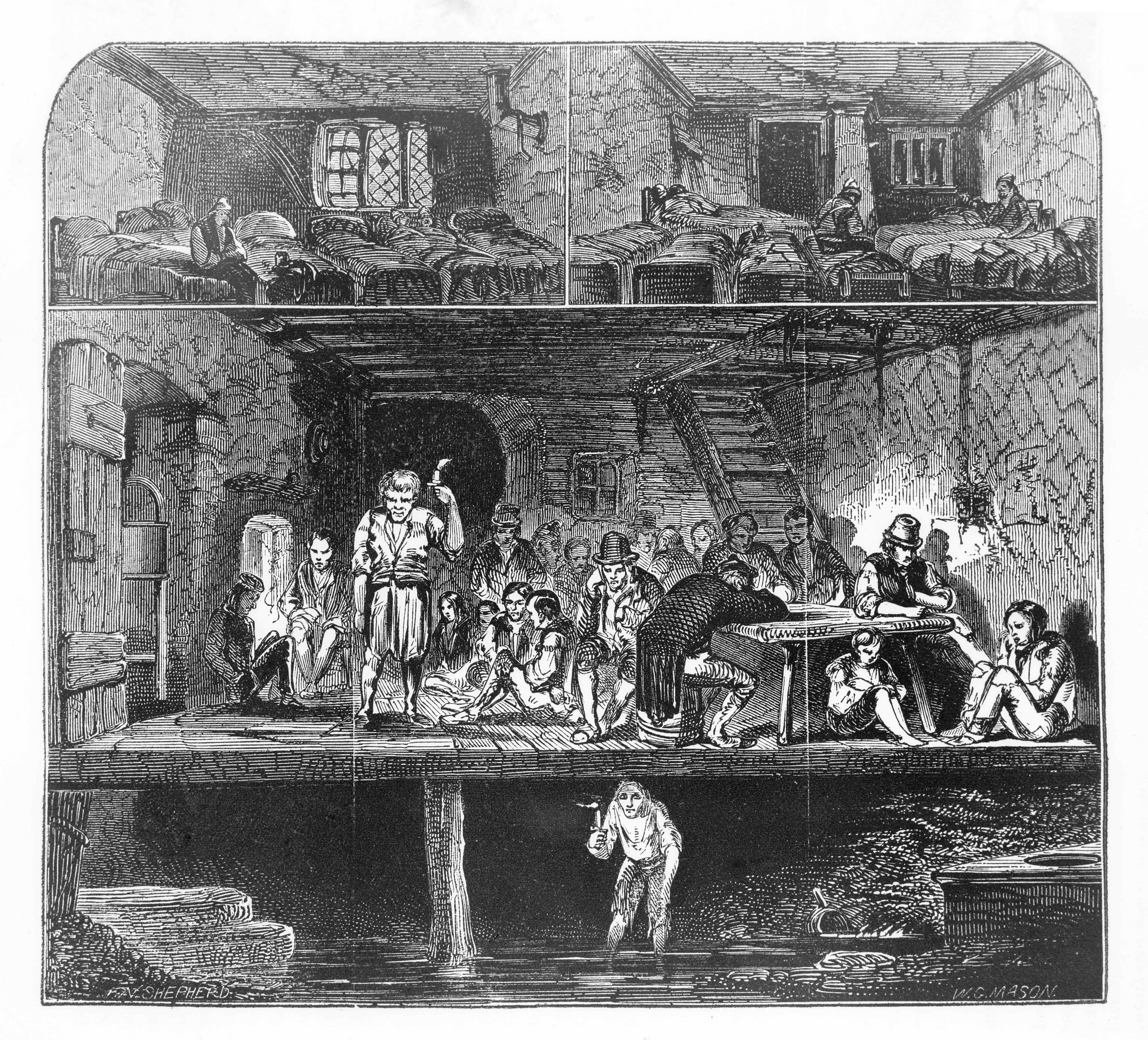 Lodging House in Field Lane. Rare Books Keywords: Slums; Sanitation; Poverty; Social Conditions; Social Class; Public Health; Housing; Poverty Areas